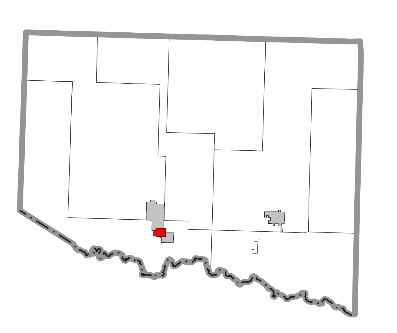 Caspian, MI